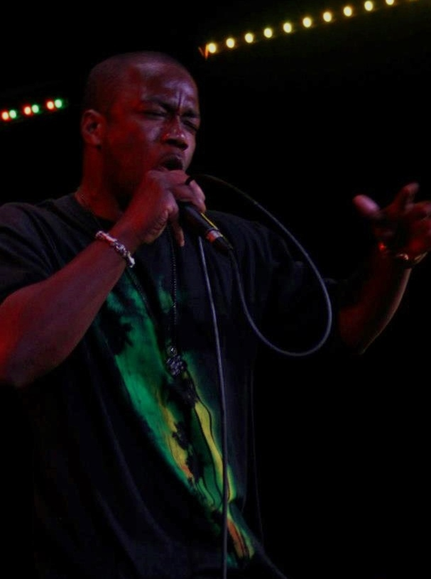 PDMC - Patron the DepthMC playing live in Bratislava, Slovakia